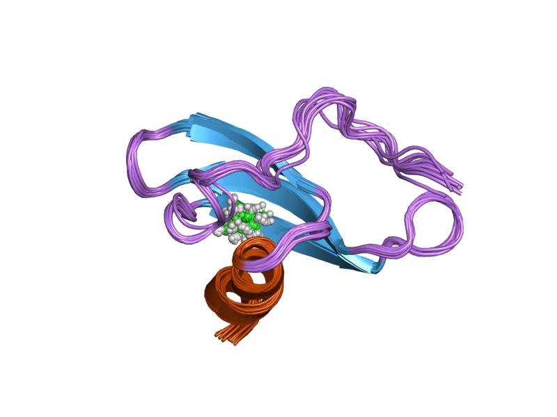 Cartoon representation of the molecular structure of protein registered with 1lv9 code.